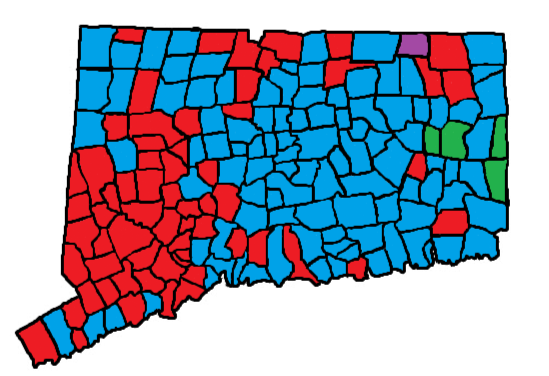 Map of town level results of the 1992 presidential election in Connecticut. Blue indicates a Clinton victory, red a Bush victory, and green a Perot victory. Purple indicates a tie between Clinton and Bush.